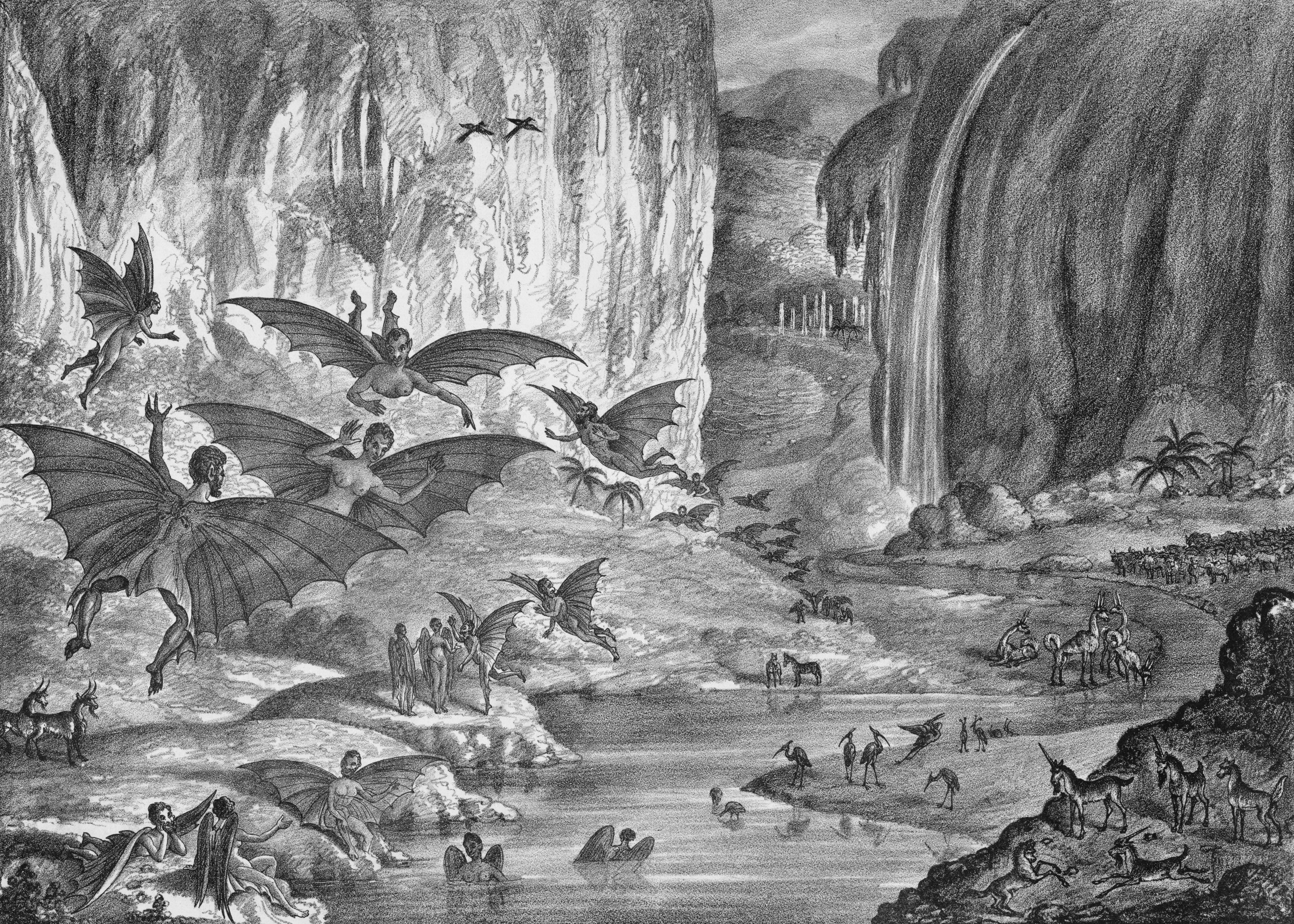 Title: Lunar animals and other objects Discovered by Sir John Herschel in his observatory at the Cape of Good Hope and copied from sketches in the Edinburgh Journal of Science.